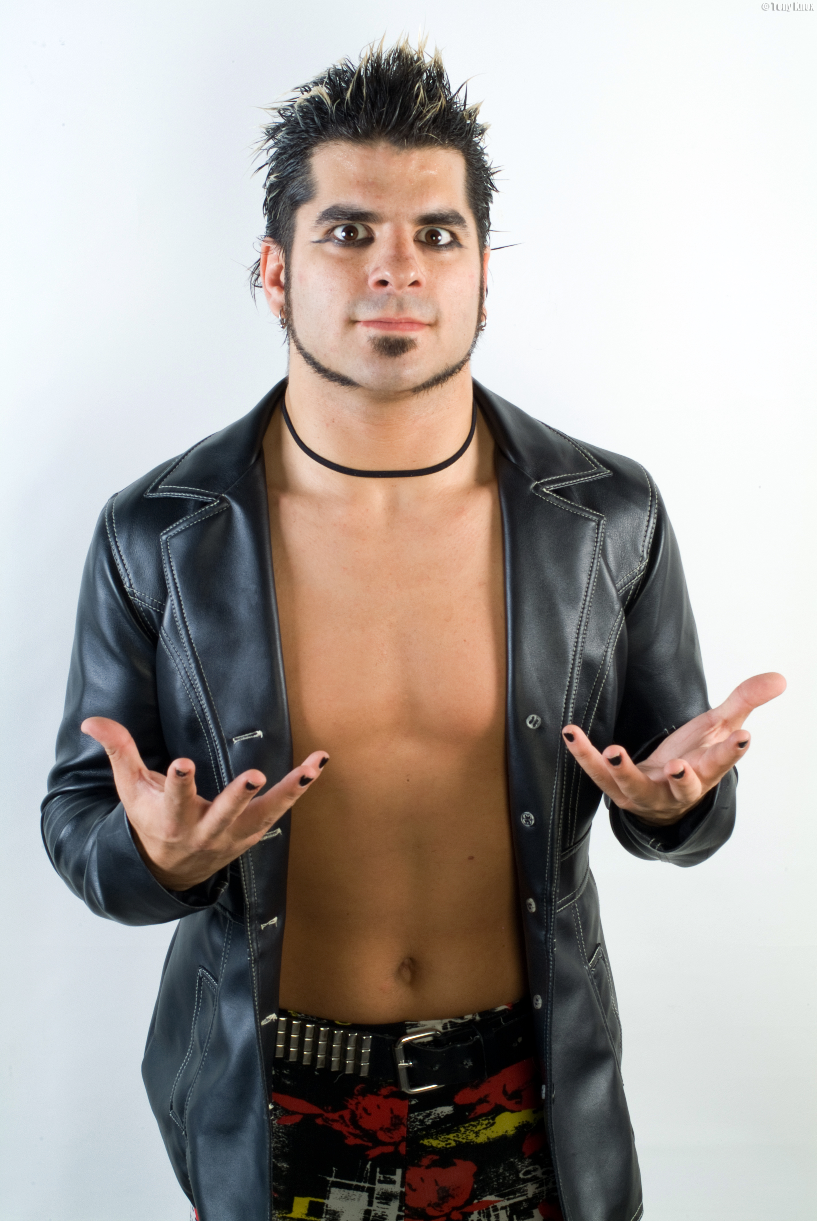 JIMMY JACOBS © Tony Knox Professional wrestler Jimmy Jacobs (real name Chris Scobille) at an All Star Wrestling show in Victoria Hall, Hanley on Saturday, 31 October 2009